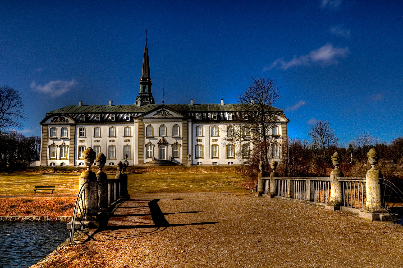 The Bregentved manor house on the island of Zealand in Denmark